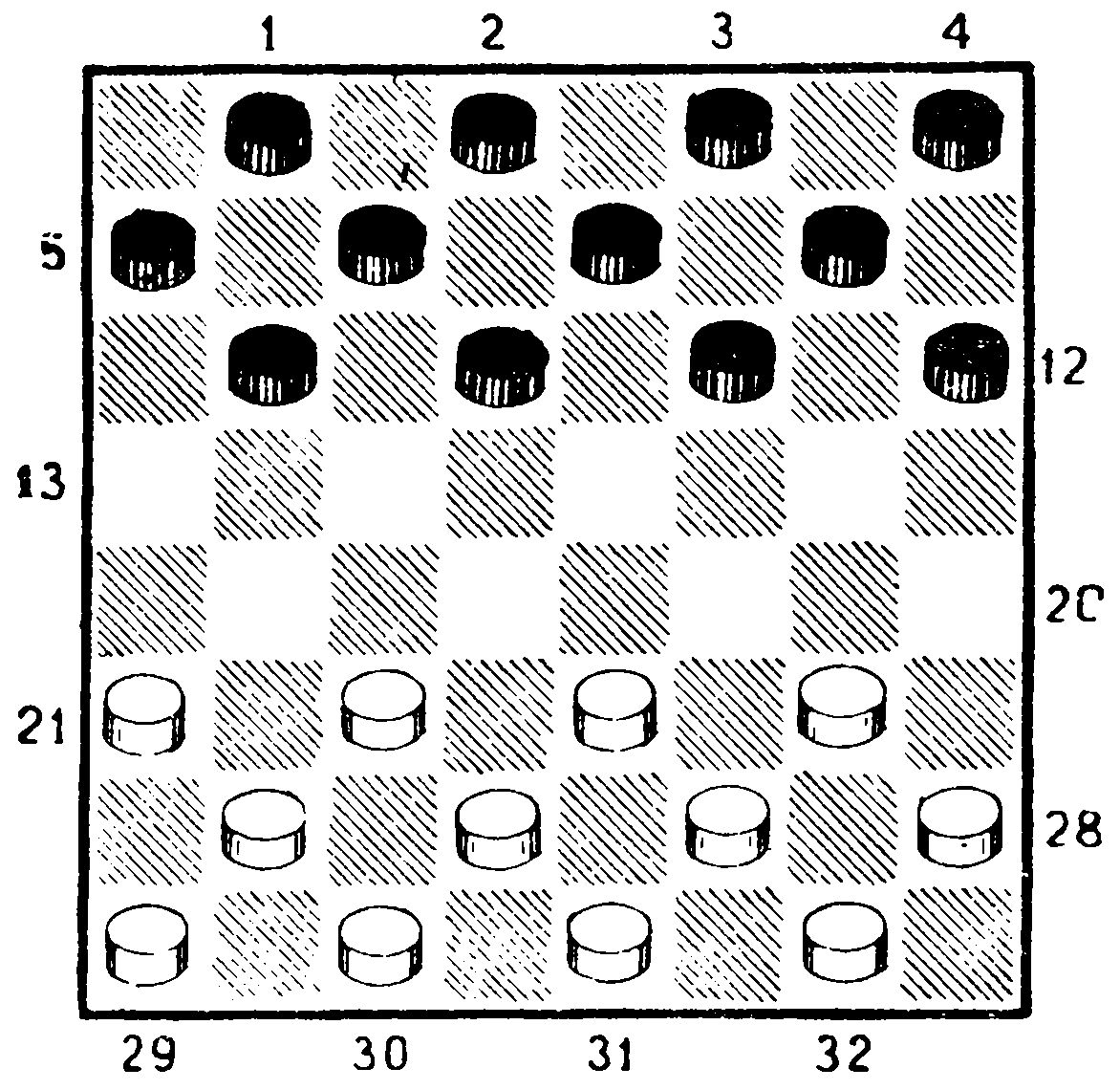 French_draughts